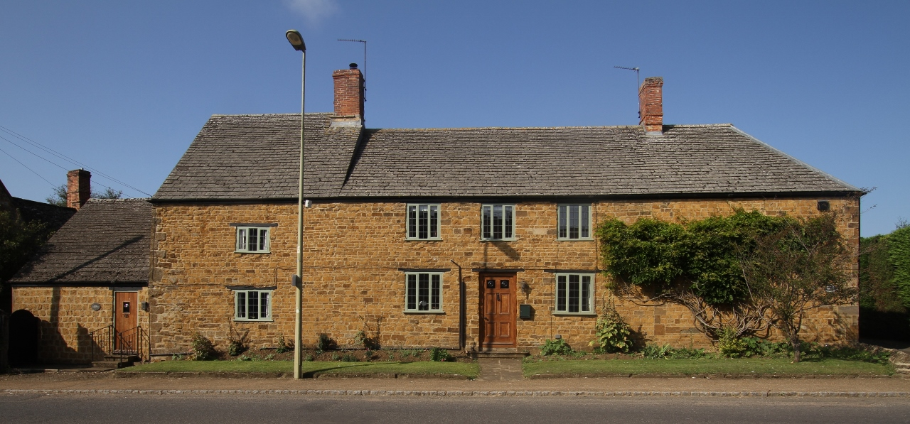 Maunds Cottage (left) and Maunds Farmhouse (centre and right), High Street, Deddington, Oxfordshire